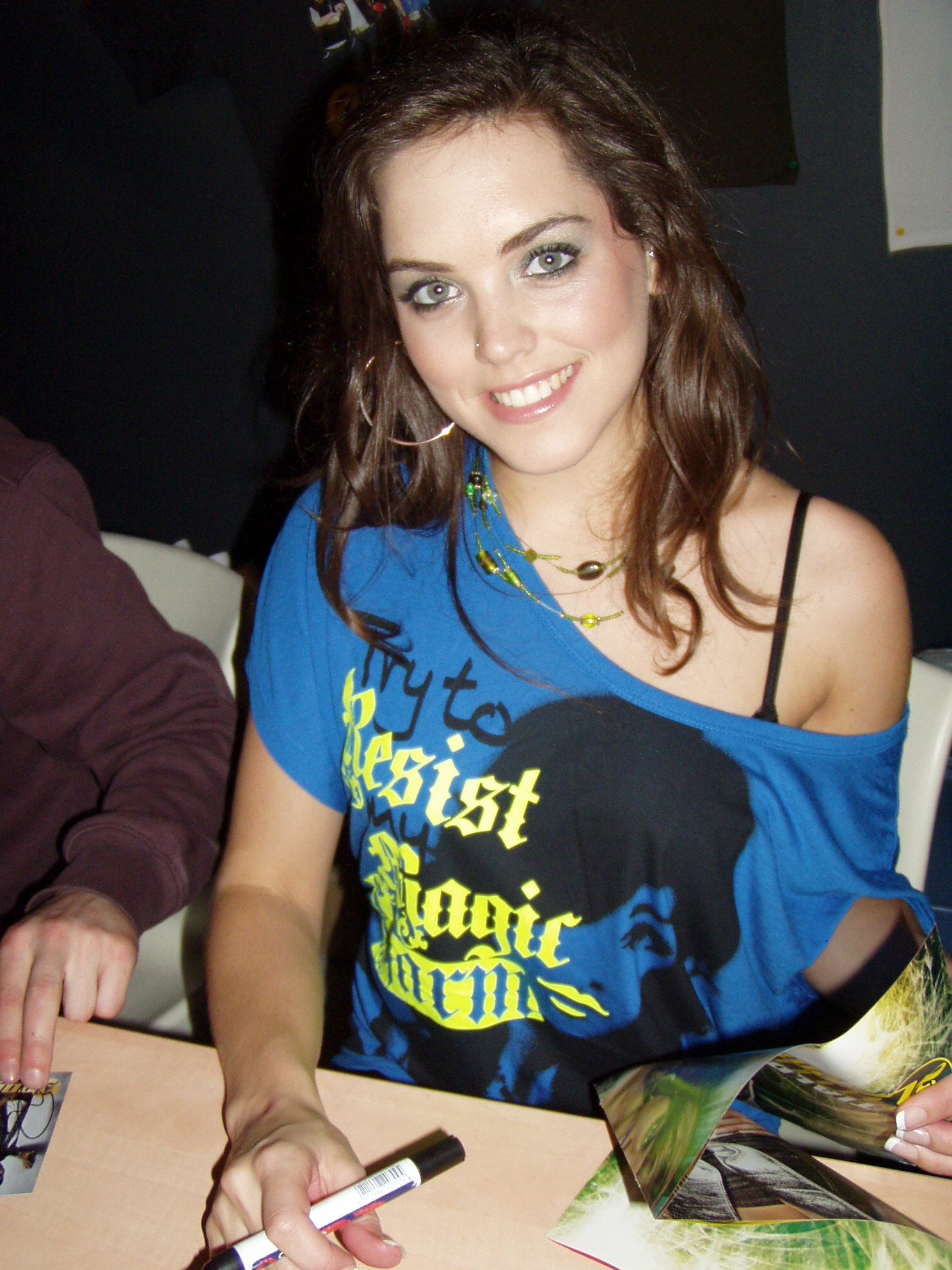 "Room2012" Member Tialda van Slogteren